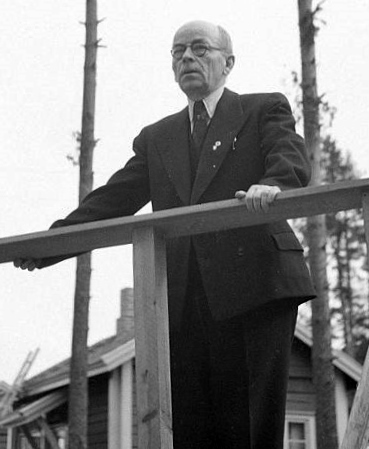 Governor E.Y.Pehkonen - a speech in Oulu 1943.09.10